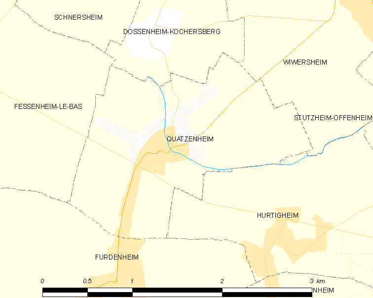 Map of French municipality